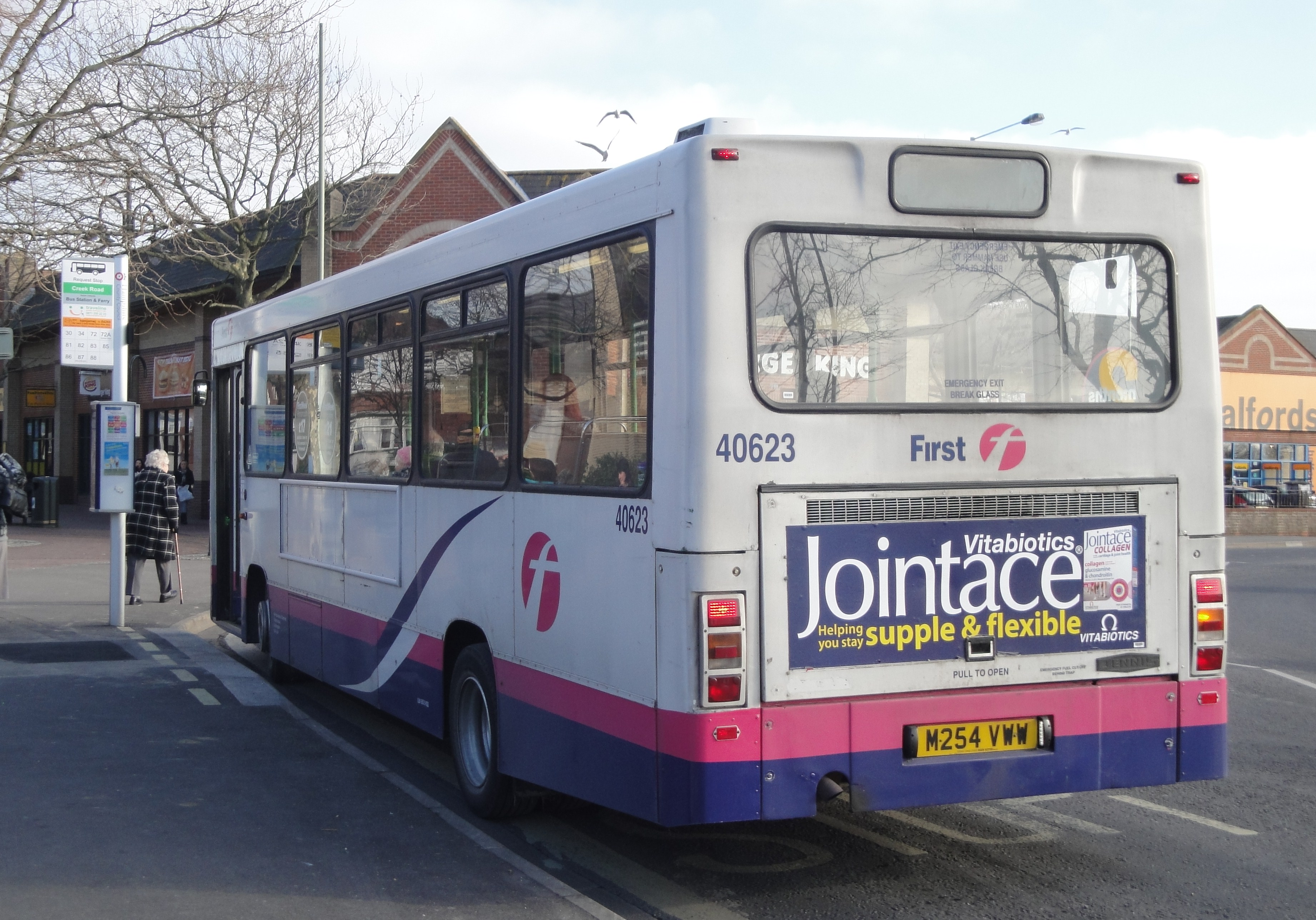 The rear of First Hampshire & Dorset 40623 (M254 VWW), a Dennis Dart/Alexander Dash, on South Street, Gosport, Hampshire on route 37A.